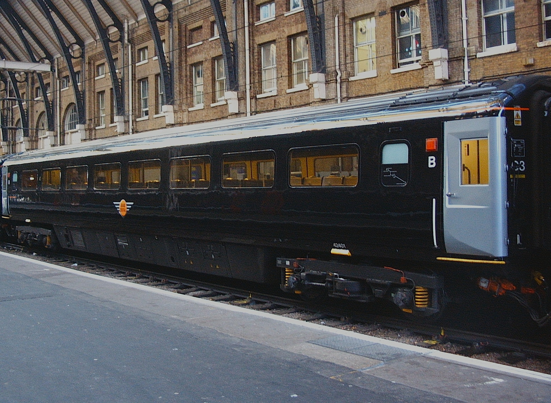 Grand Central Mark 3 TS No. 42401 at London Kings Cross